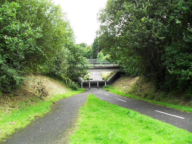 Subway, Lake Road, Craigavon Links Tannaghmore Gardens with the Pinebank Estate.